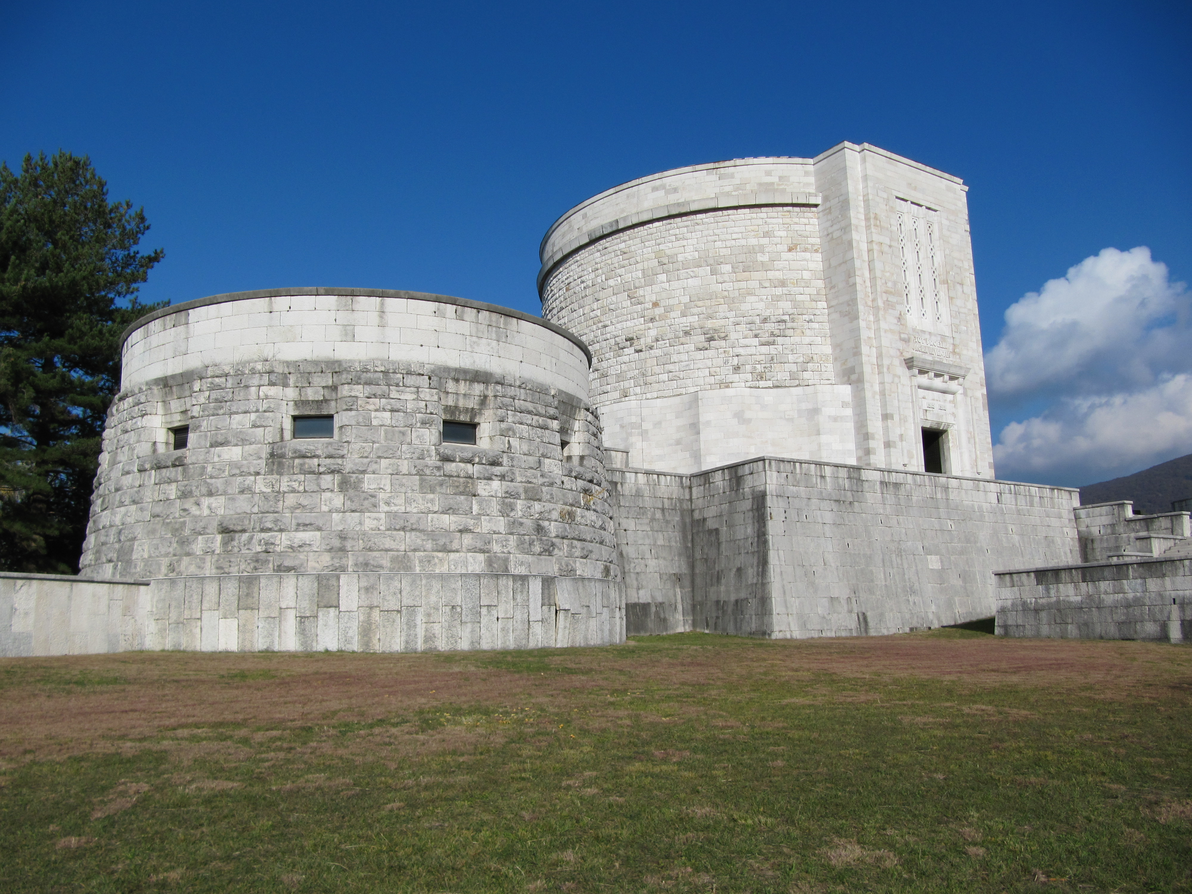 Military memorial of Oslavia, here are buried over 57,000 soldiers of first world war. Gorizia, Italy.